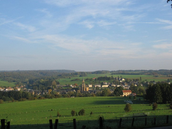 View of Ethe village